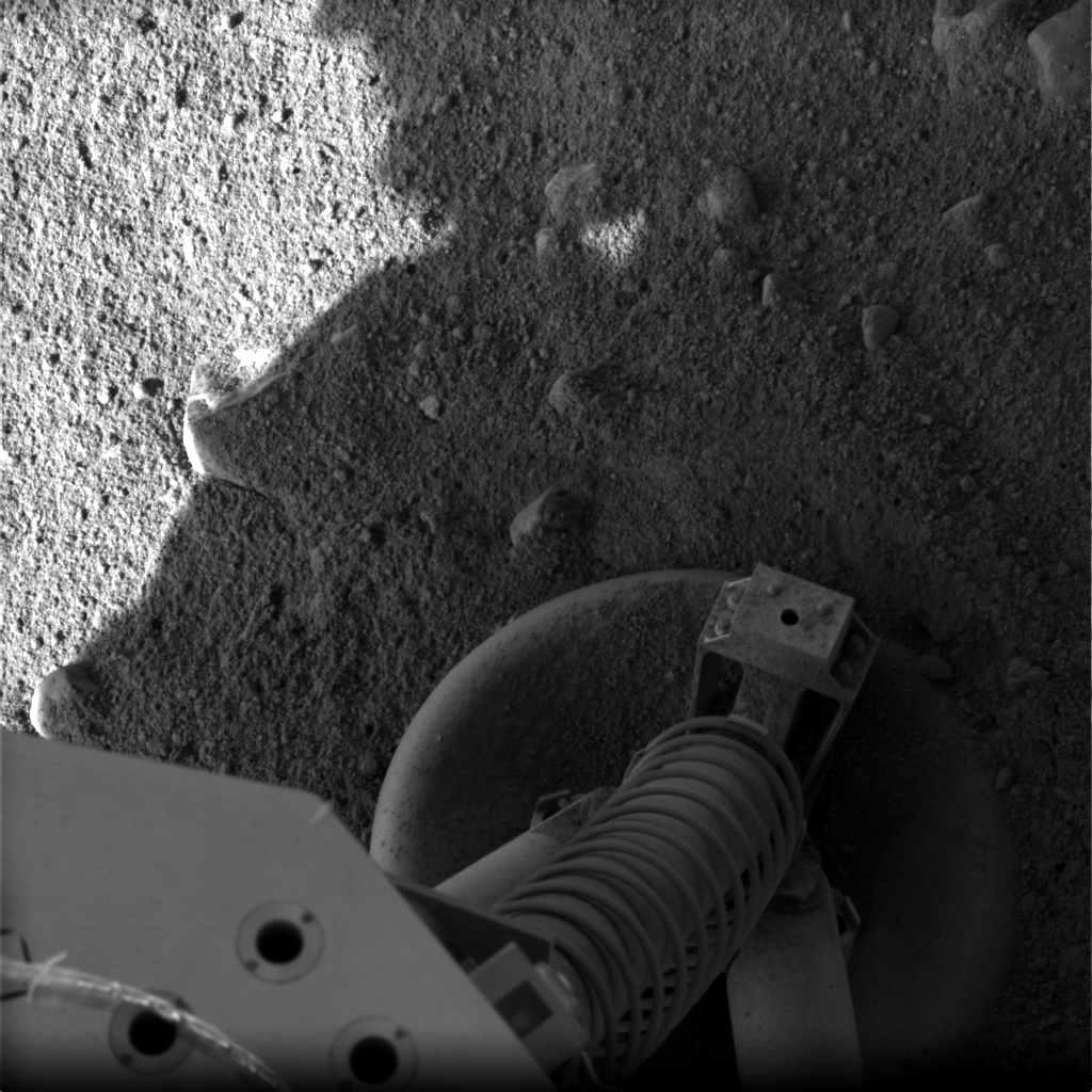 This image of the Phoenix landing gear was acquired at the spacecraft's landing site on day 1 of the mission on the surface of Mars, or Sol 0, after the May 25, 2008, landing. The surface stereo imager left acquired this image at 17:07:41 local solar time. The camera pointing was elevation -63.4431 degrees and azimuth 39.9232 degrees.